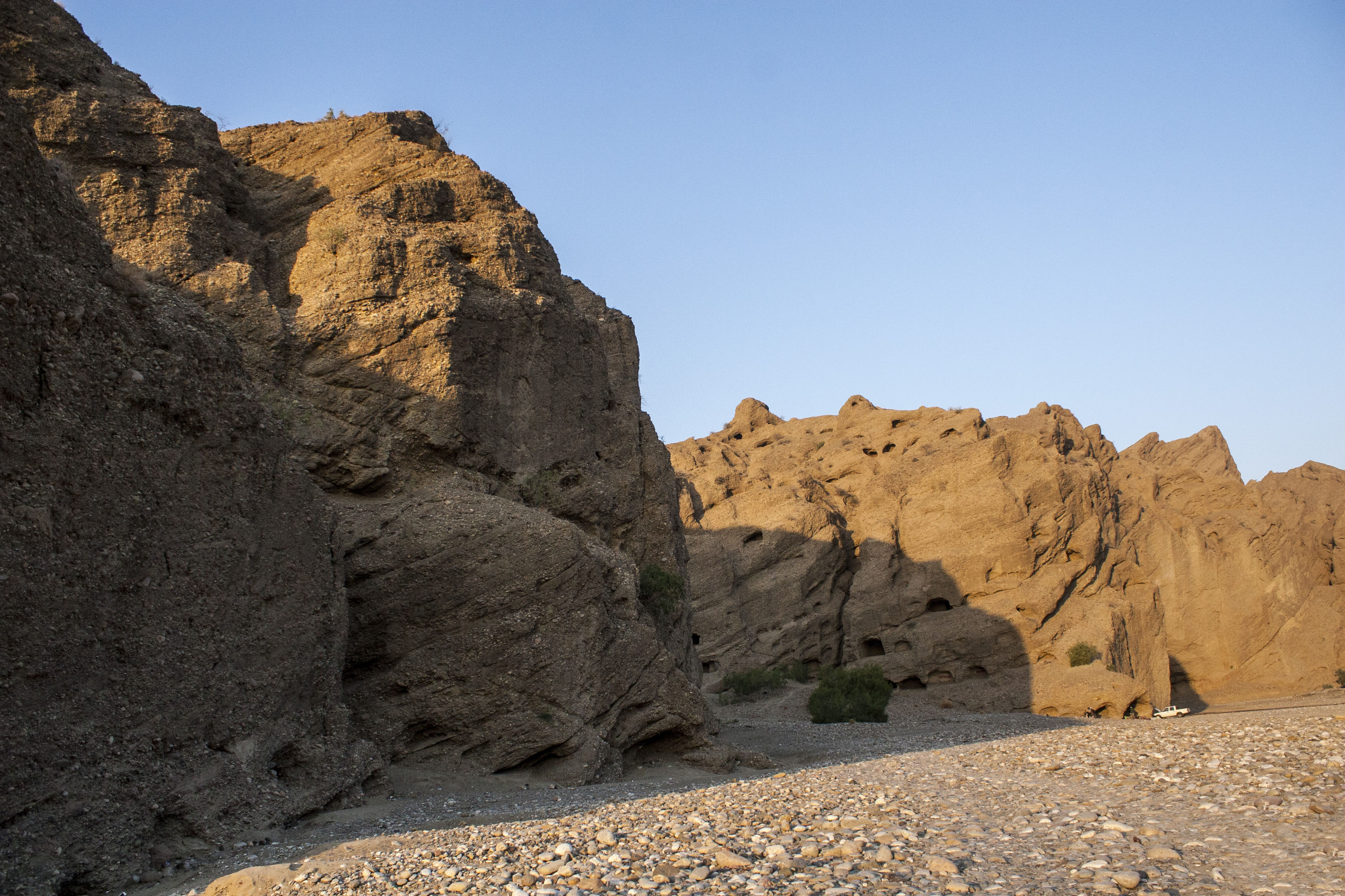 Gondrani (or Gundriani) This is a photo of a monument in Pakistan identified as the BA-U-10